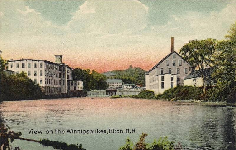 View on the Winnipesaukee River, Tilton, New Hampshire